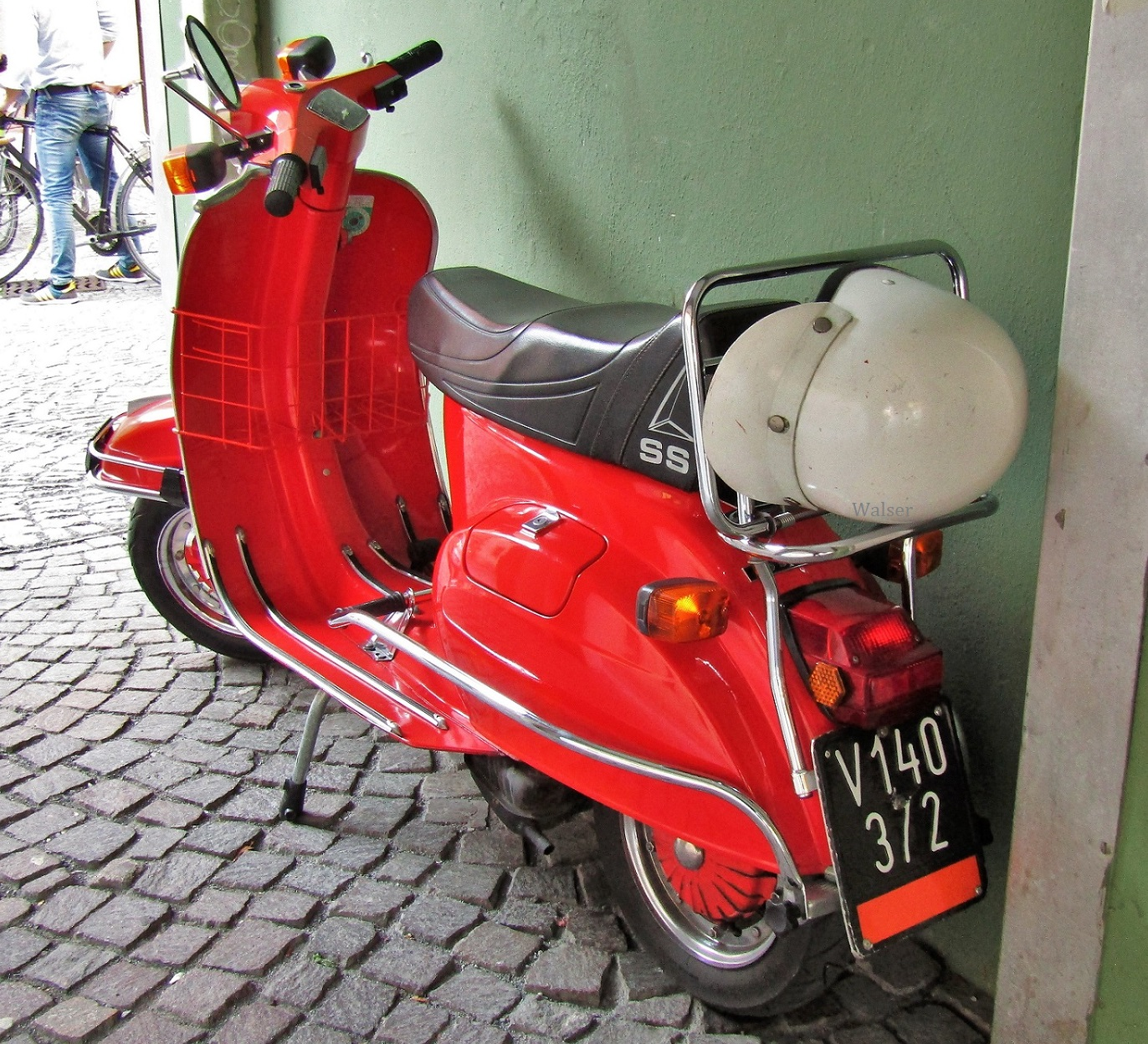 Austria small motorcycle license plate 1947-1990